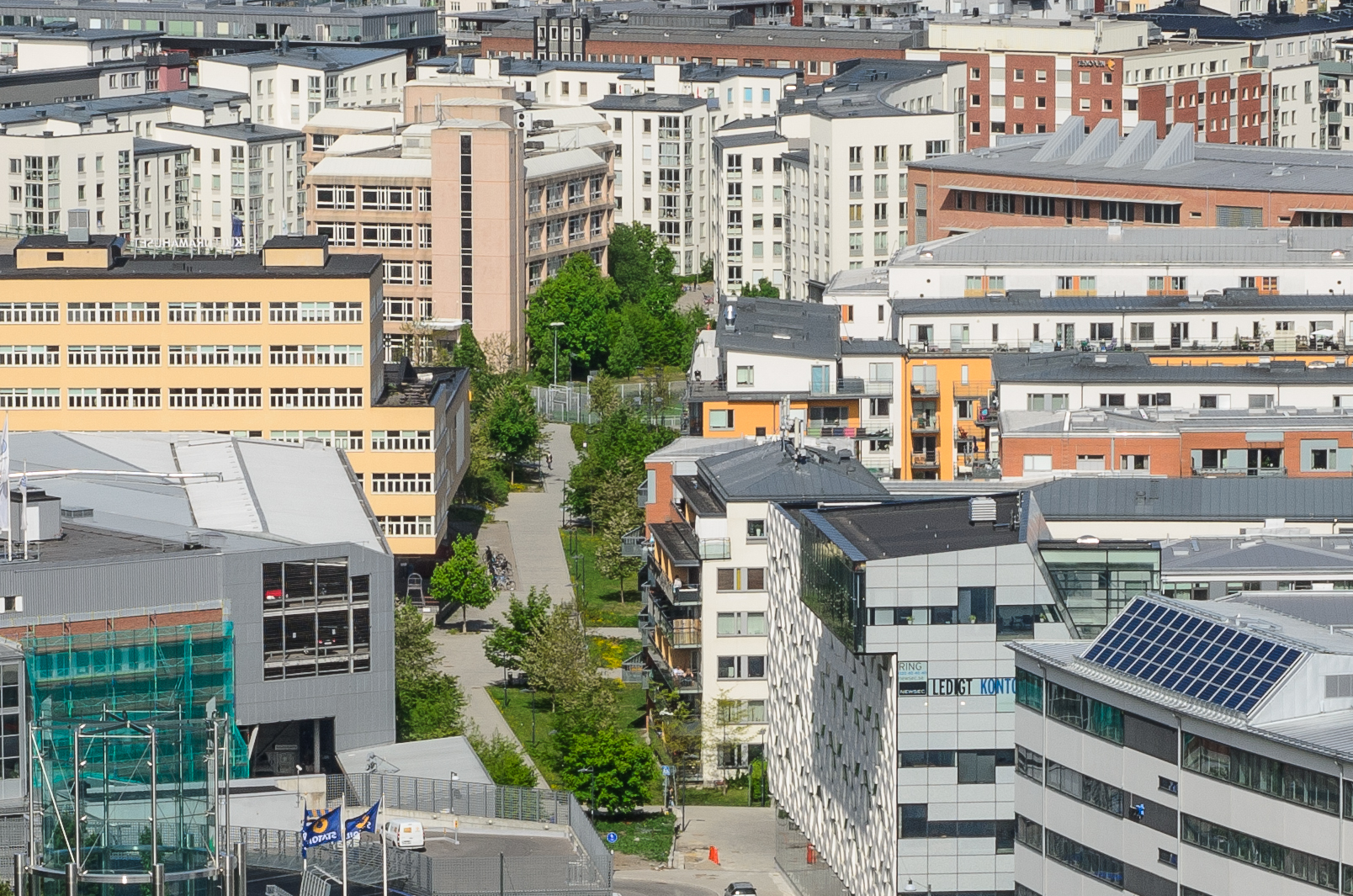 Heliosparken, Södra Hammarbyhamnen.